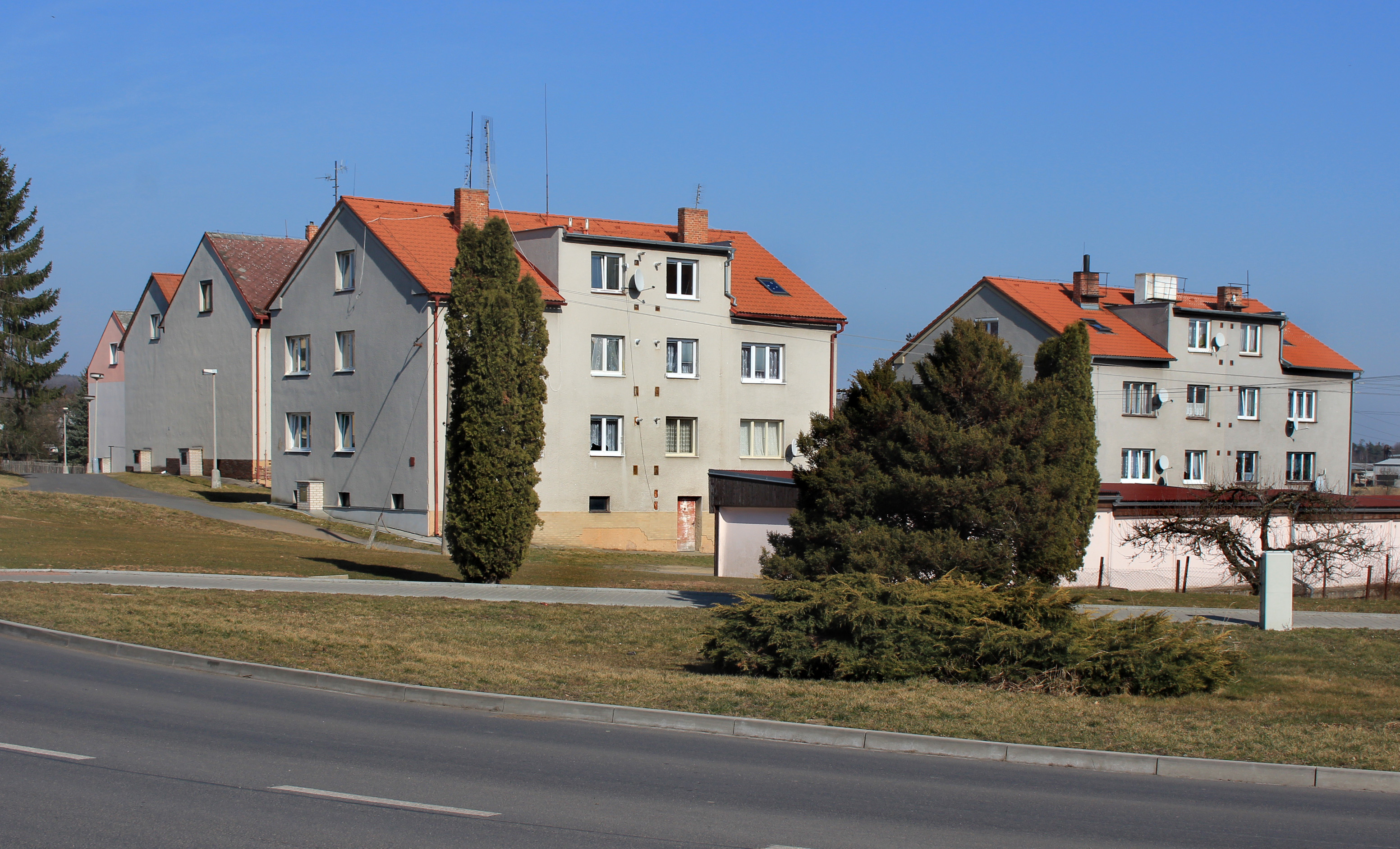 Housing estate in Heřmanova Huť, Czech Republic.